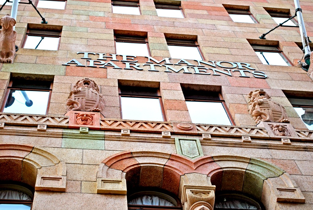 Location: The Manor Apartments (former CML building) facade, 289-291 Queen Street Artist: LJ Harvey (Sculptor) Materials: Benedict stone Installation date: 1930 - 1931